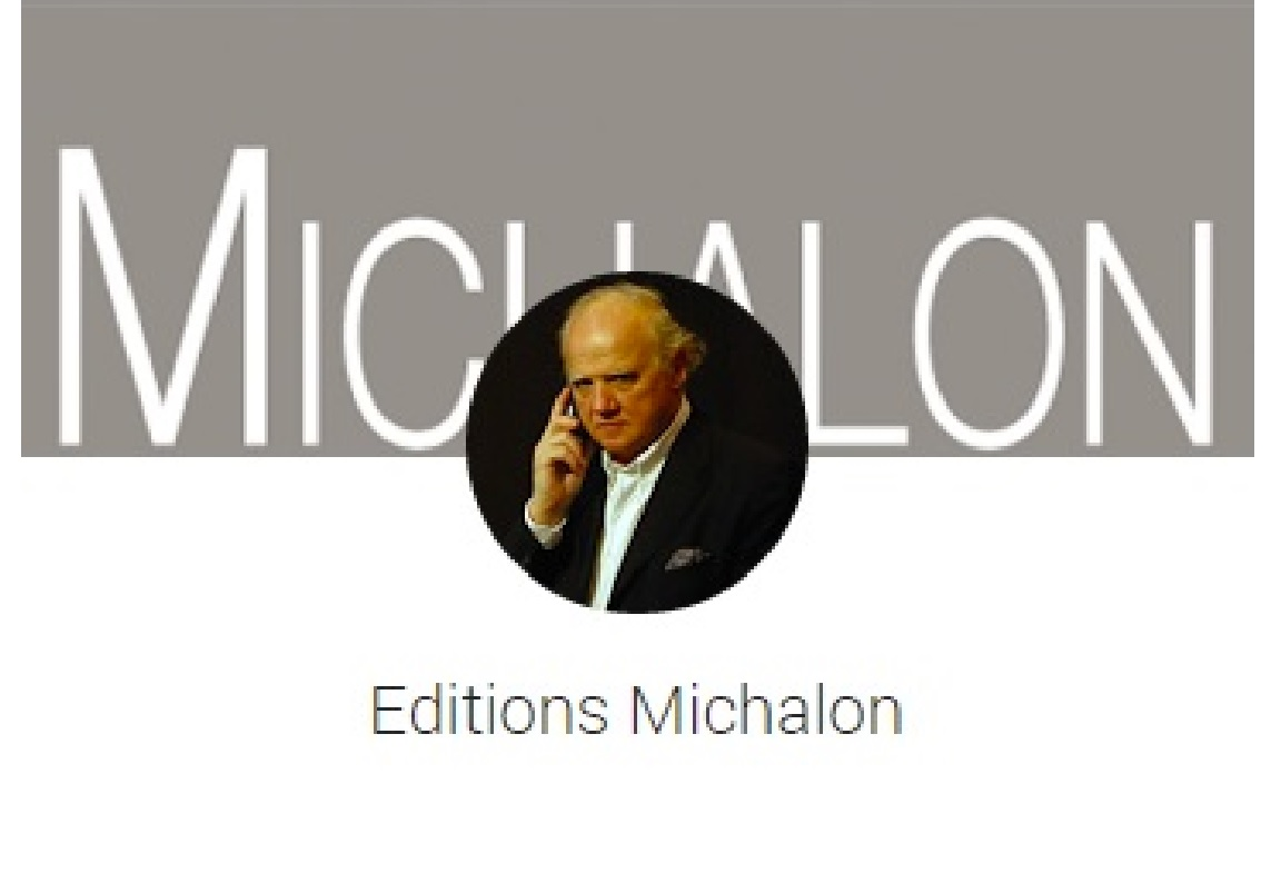 Banner